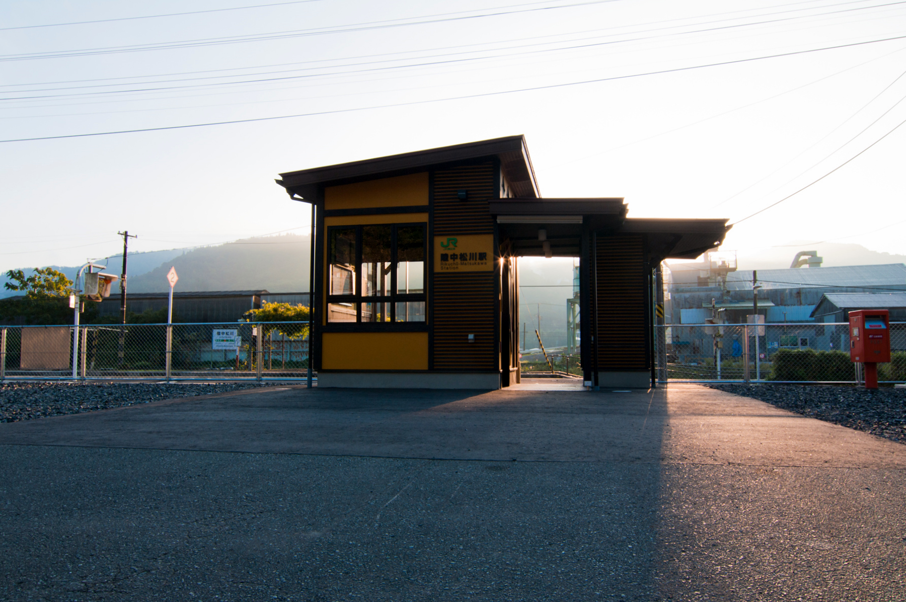 Rikuchu-Matsukawa Station on JR East Ofunato Line